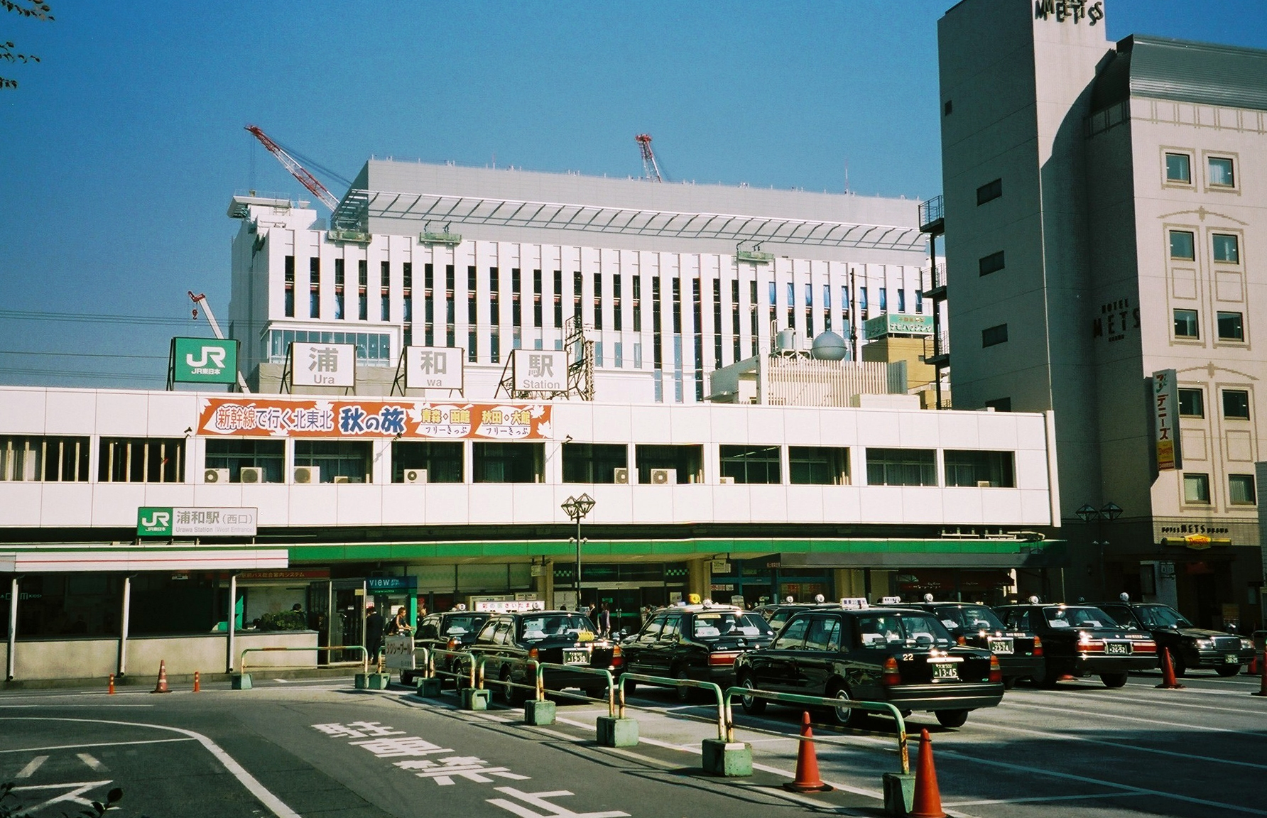 East exit of Urawa Station (on 9 November 2006)